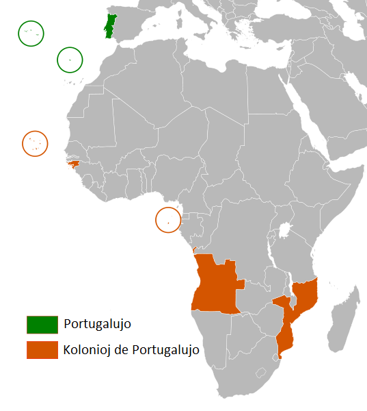 Map in Esperanto of portuguese colonial war: main Portugal in green, colonies in orange